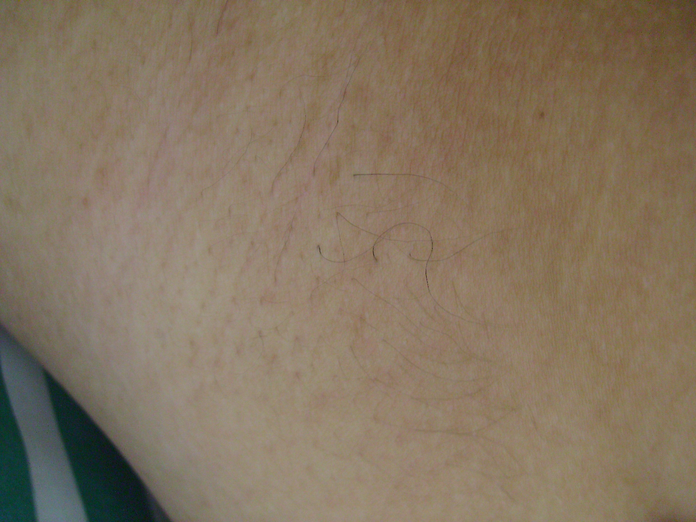 a teenage boy just growing his armpit hair